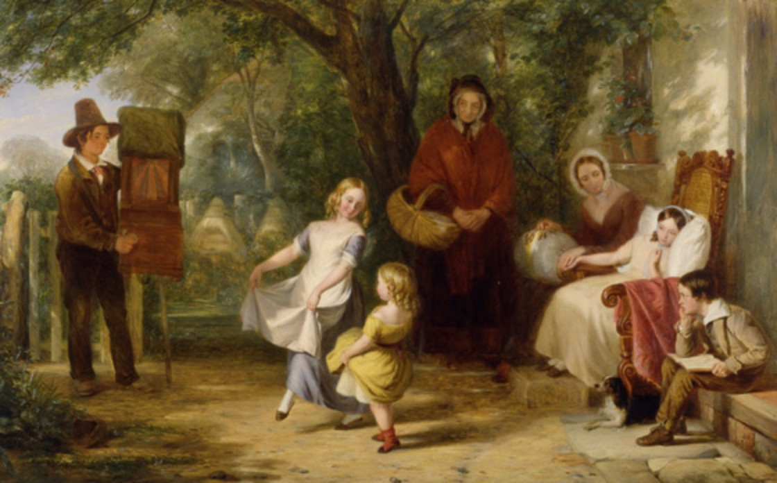 In Sickness and Health. Oil on canvas